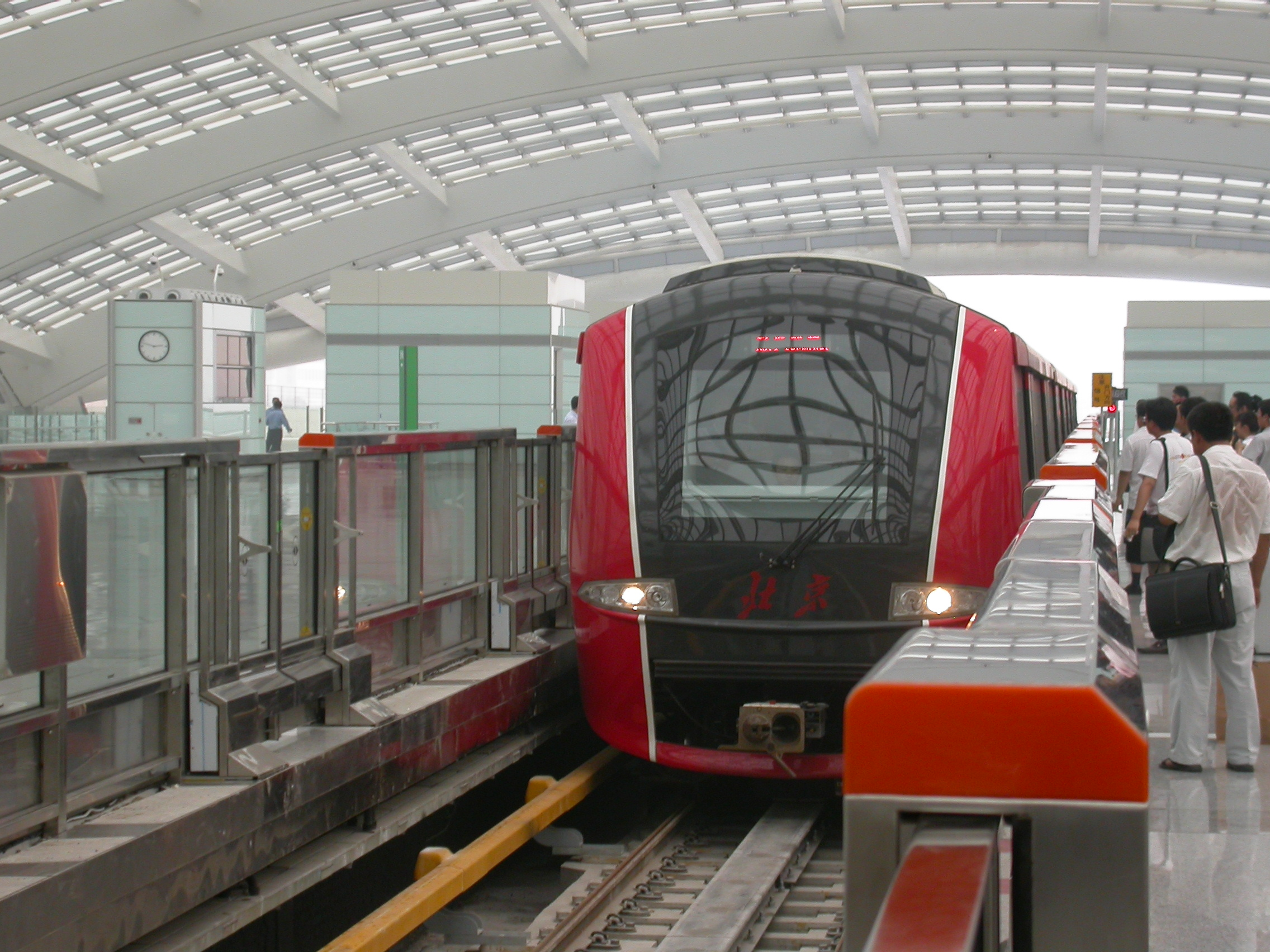 The train of Airport Line, Beijing Subway 中文（中国大陆）: 北京机场快轨列车